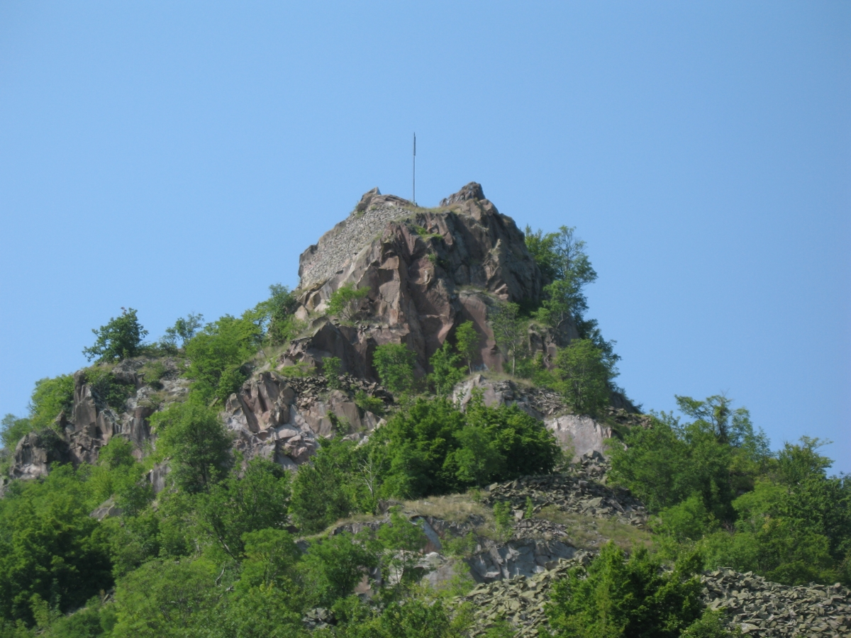 Remains of Brvenik fortress,above Ibar river,Raška municipality,Serbia.